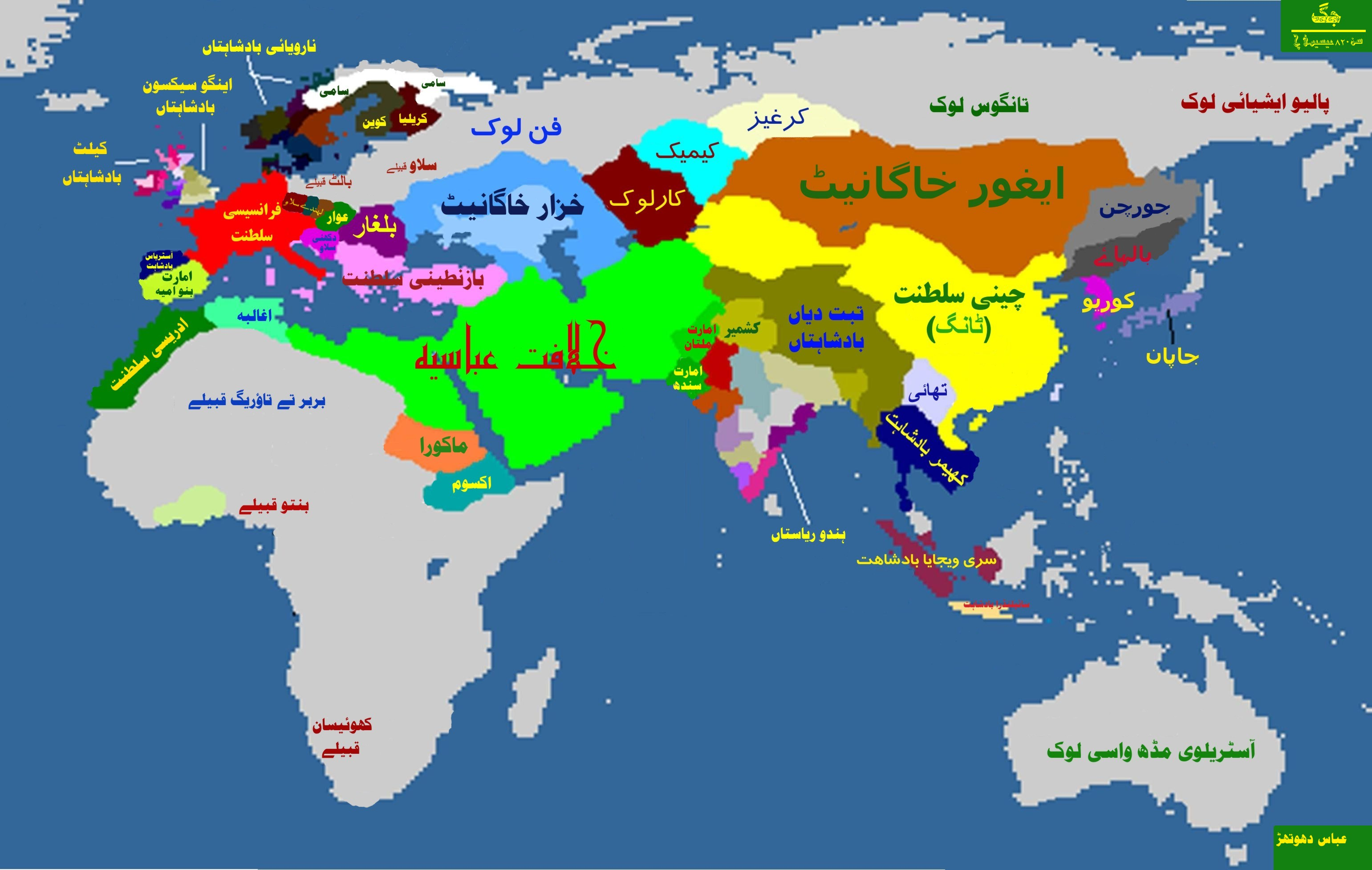 Map of world (820 A.D) in Punjabi.